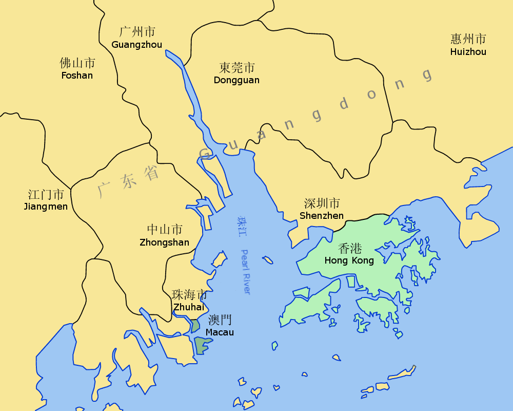 Pearl River Delta — eastern portion, in Guangdong Province. Showing boundaries of the Special Administrative Regions of Hong Kong and Macau (in green), and the bordering Guangdong Prefectures Map drawn in October 2007 using various sources, mainly : Map of the Pearl River Delta from Map of administrative boundaries from